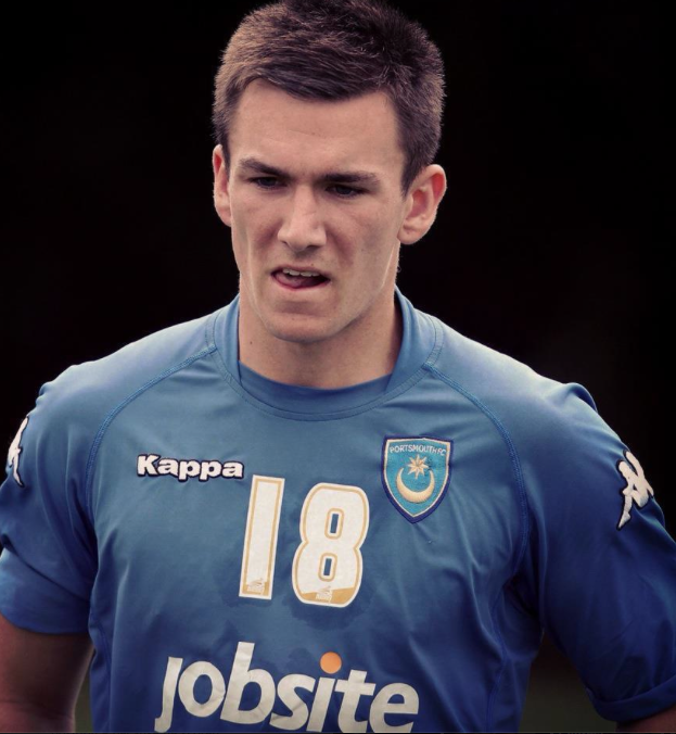 Jed Wallace